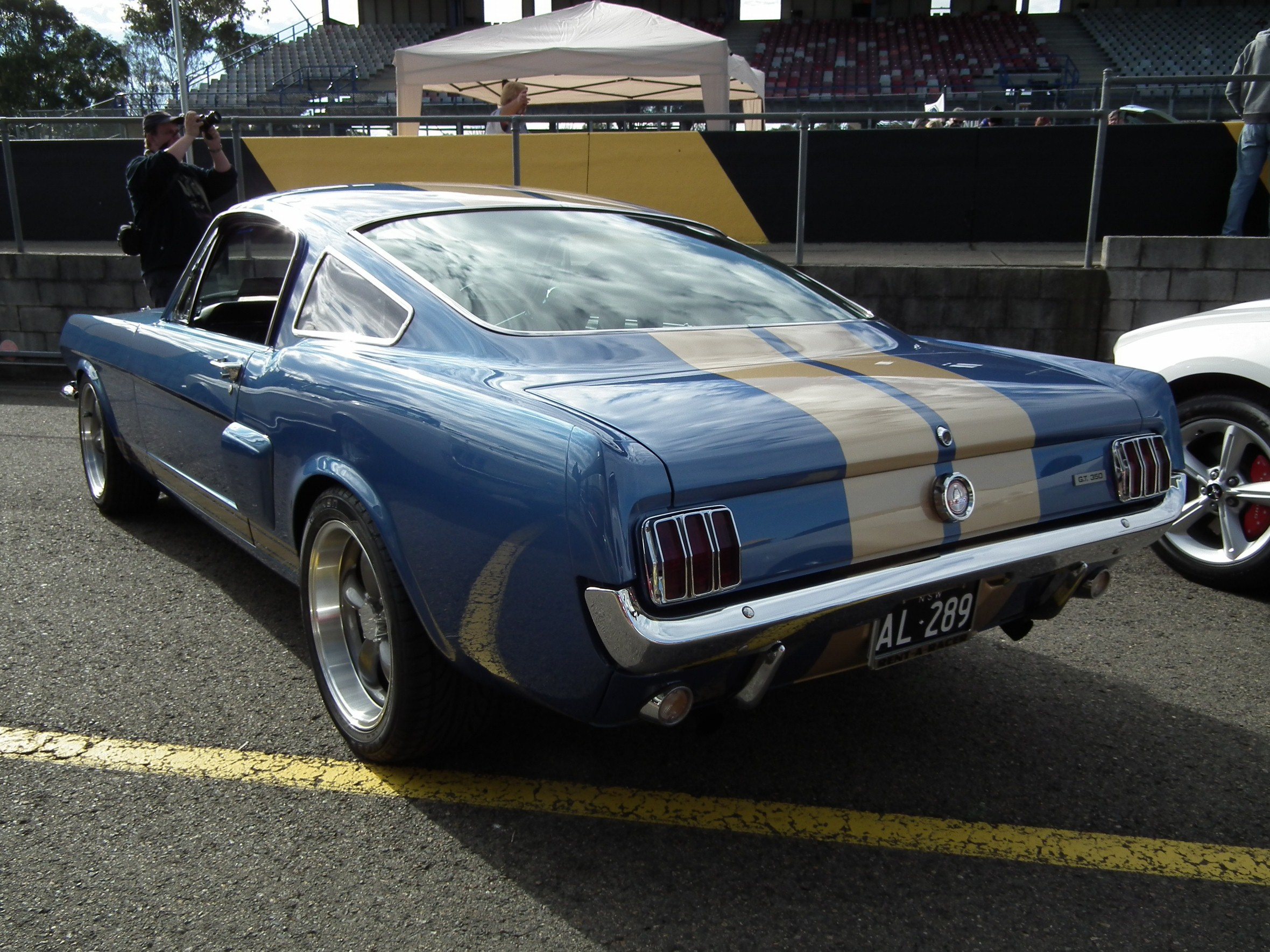 1965 Ford Mustang Shelby GT350H fastback. Taken at the 2012 New South Wales All Ford Day, held at Sydney Motorsport Park (formerly Eastern Creek Raceway).